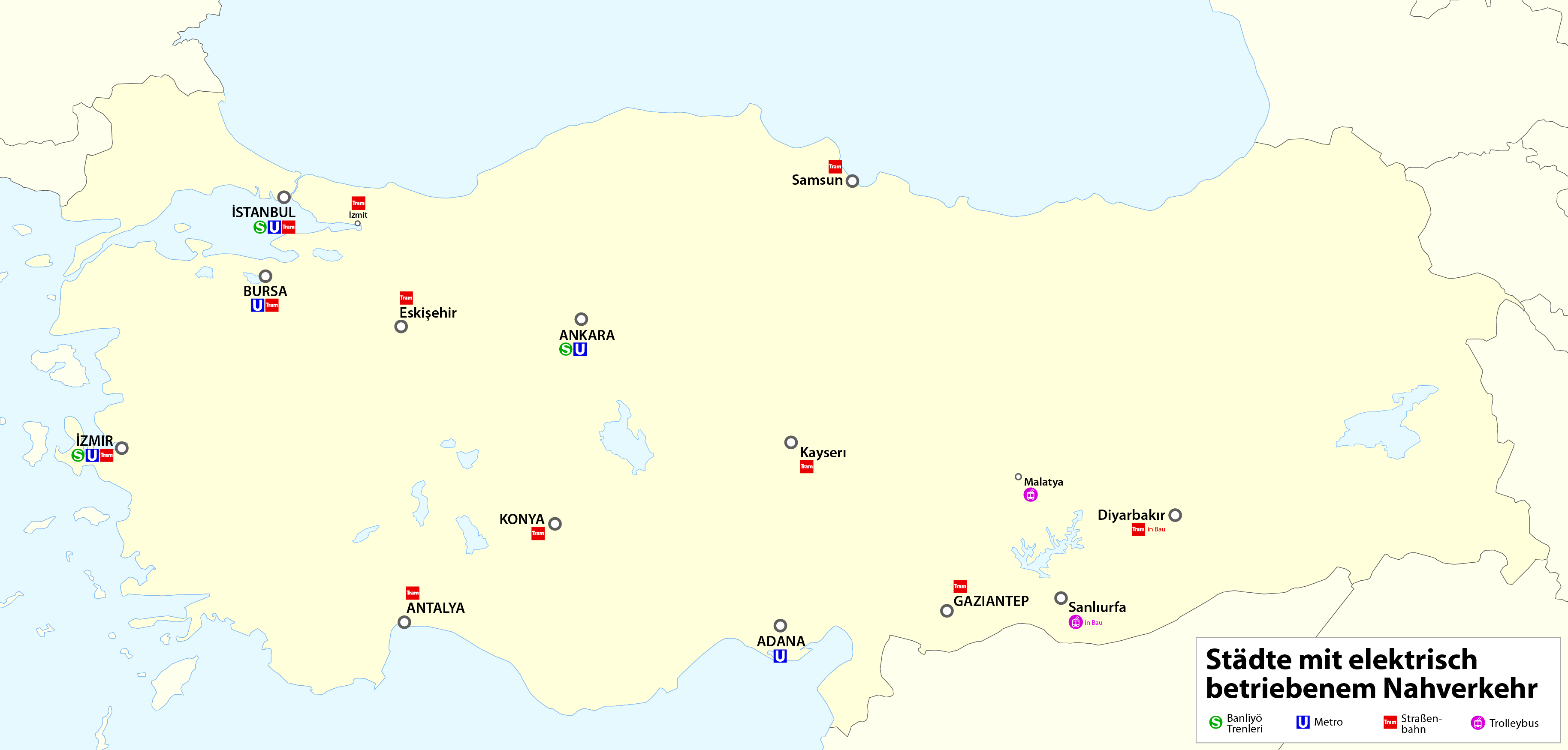 Map of fixed-route public transport systems (Rapid Transit and Light Rail Transit systems, tram, trolleybus) in Turkey (may 2016)